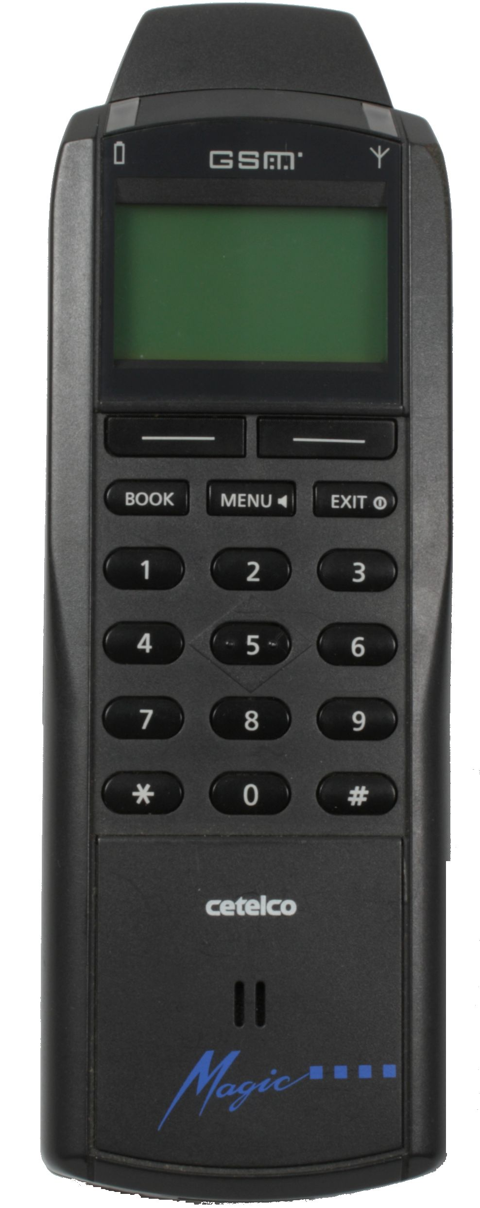 Hagenuk early GSM phone, MT-2000, In Cetelco Variant